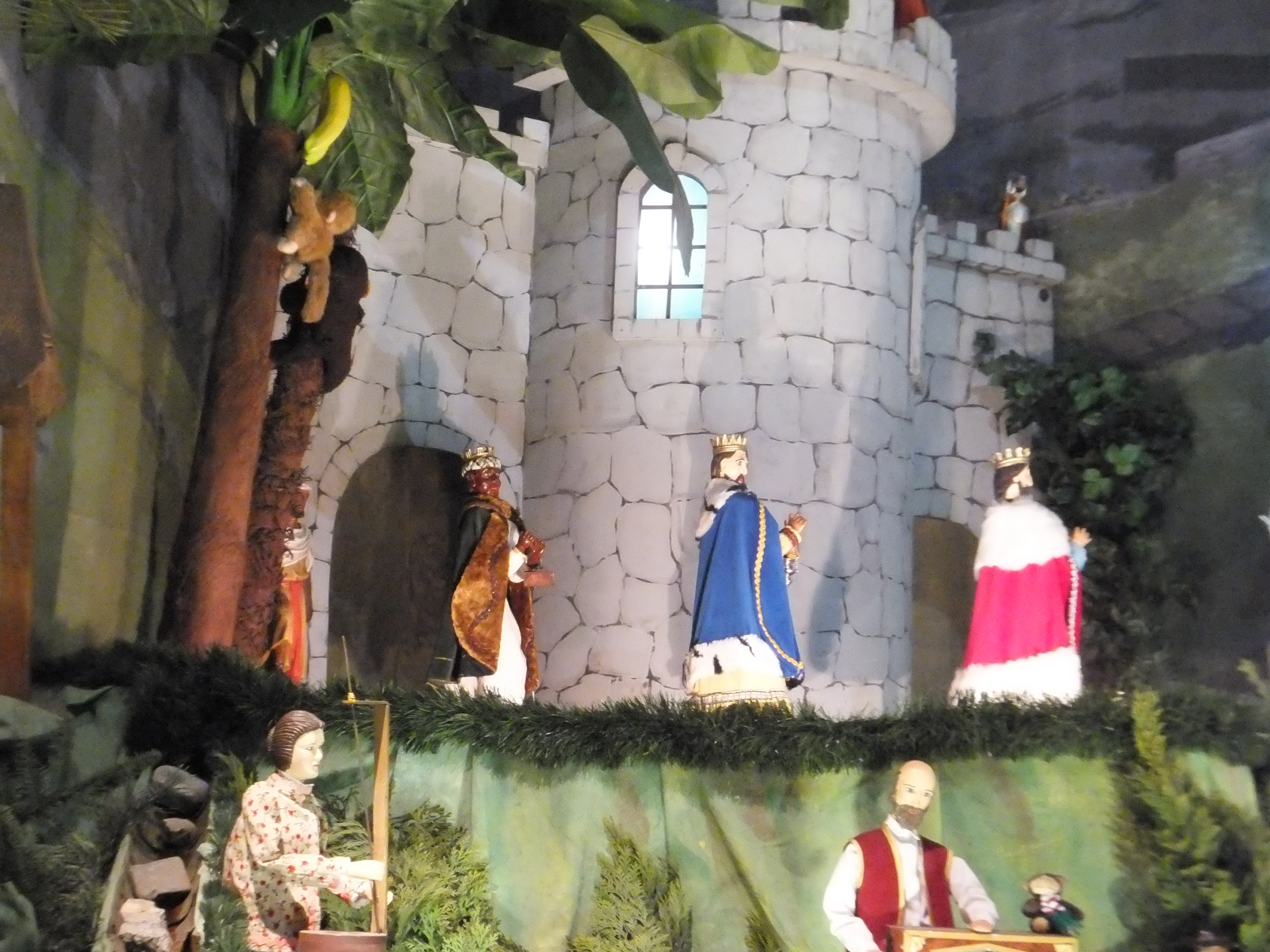 Moving crib in Saint Bartholomew church in Bieruń (Poland). Moving crib is built every year since 1955. It consists of more than 100 figures (most of the figures moving).